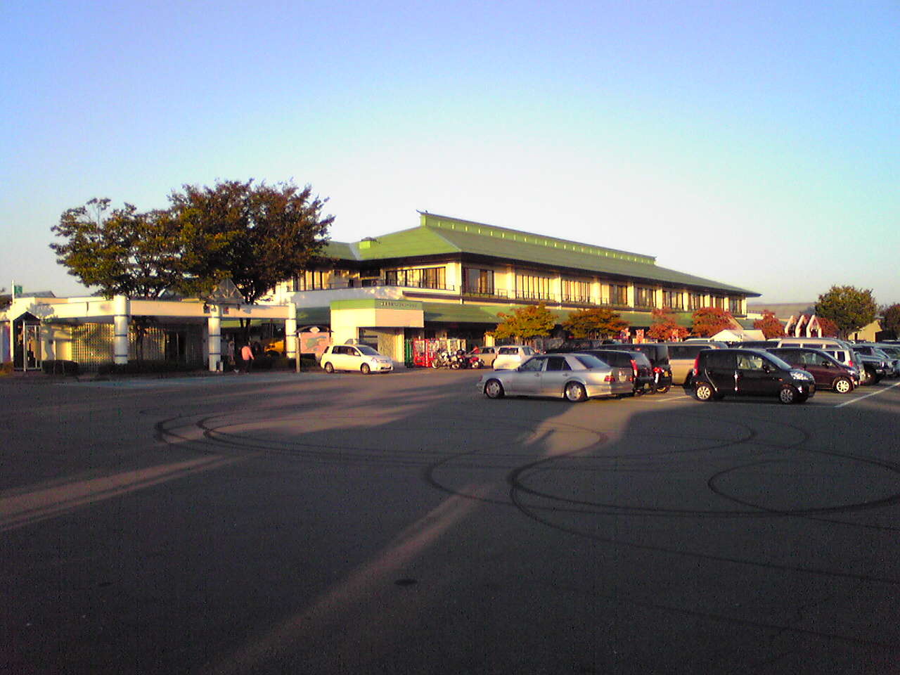 Michinoeki Sagae in Sagae City, Yamagata Prefecture, Japan